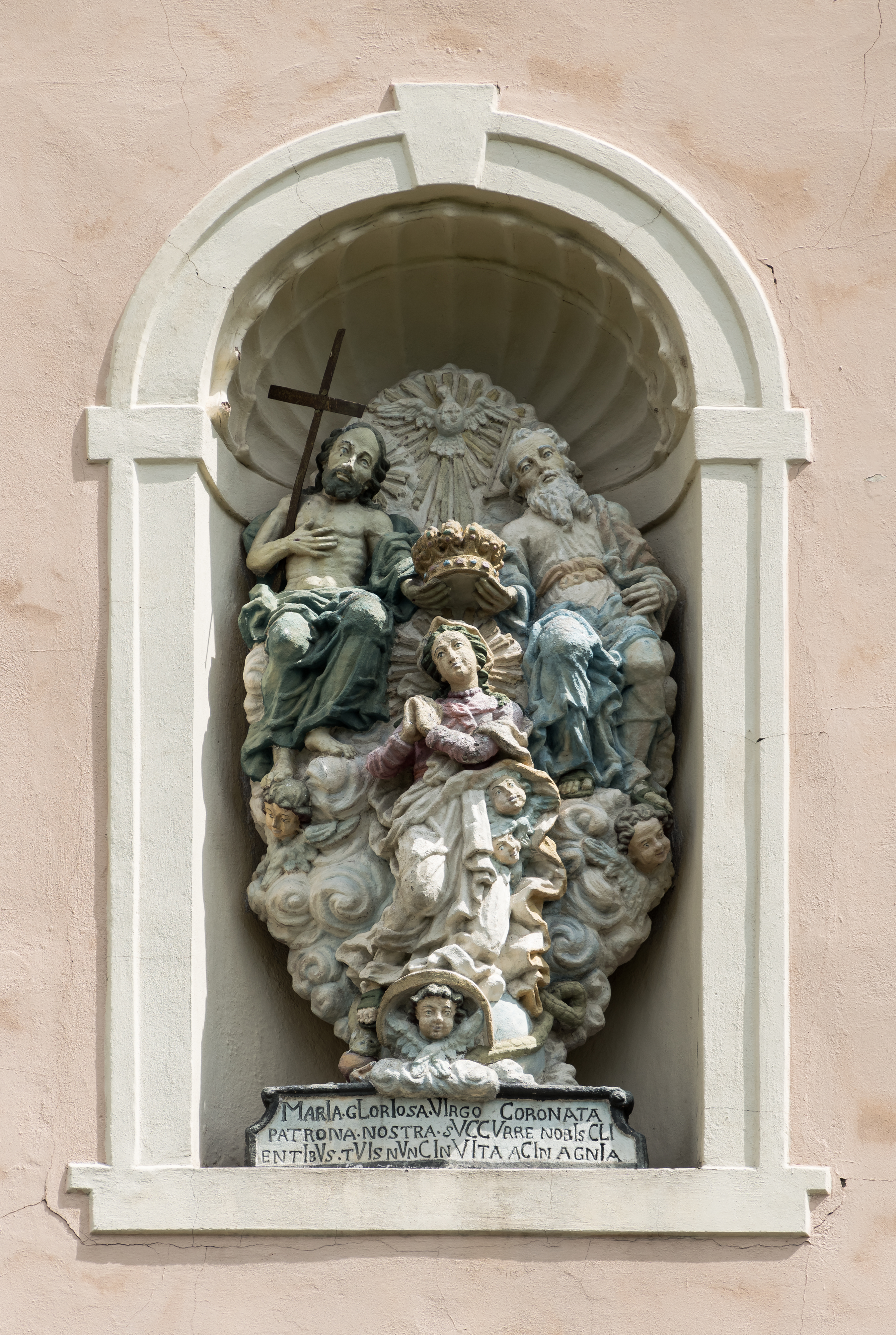 Church of the Assumption in Nowa Wieś